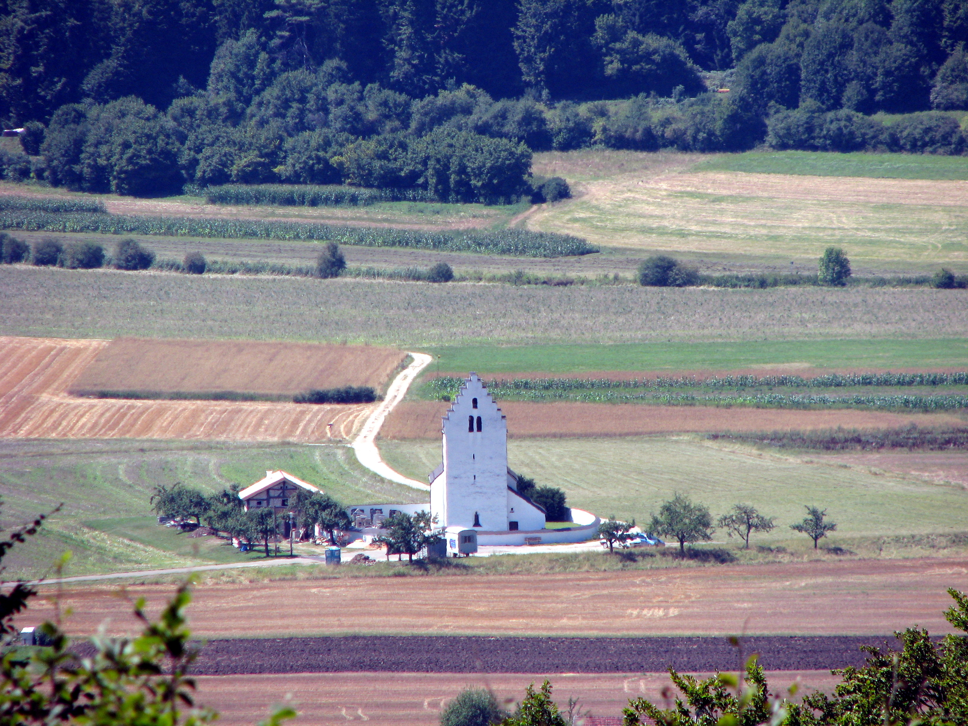 Church in Böhming near Kipfenberg in Germany seen from the watch tower 14/78 of the Raetian Limes (from NE). The curch is built on the foundations of a roman castle (Numeruskastell).